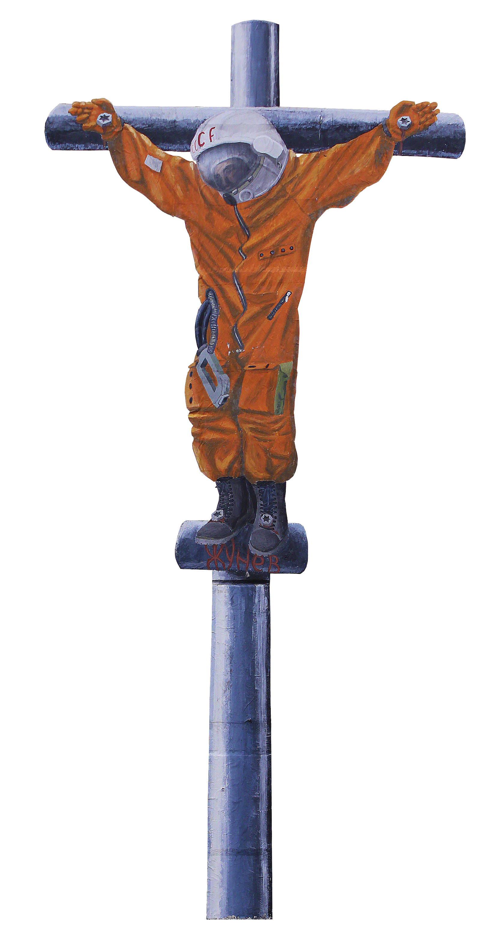 The author granted permission to use this image under the aforementioned license